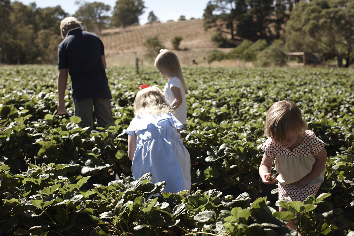 Pick-Your-Own Strawberries